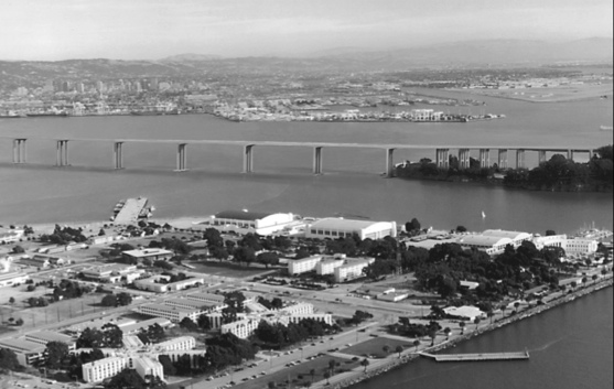 Original "skyway" proposal for SFOBB Eastern Span Replacement.